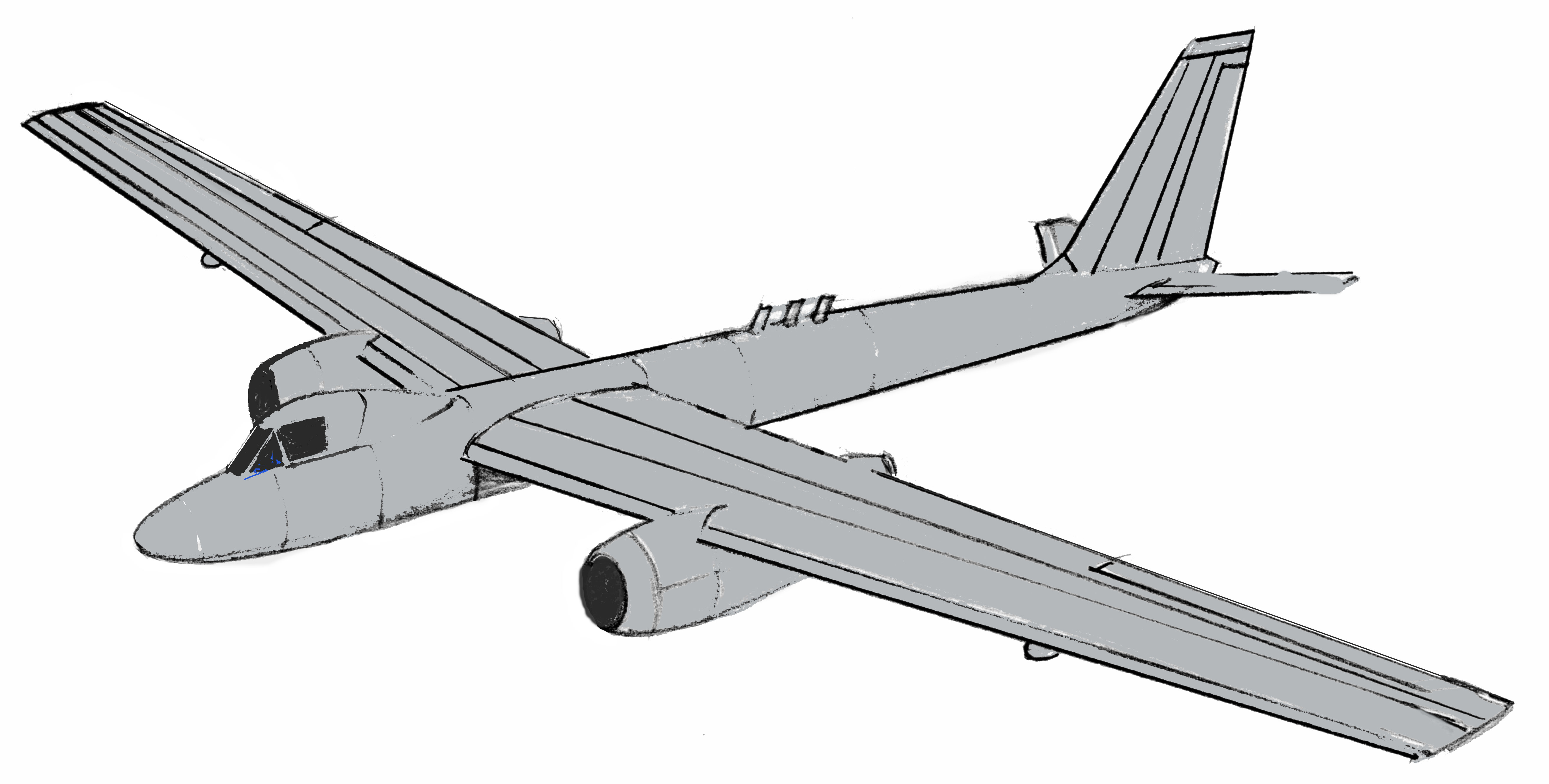 Artist's depiction of the Bell X-16 spyplane.